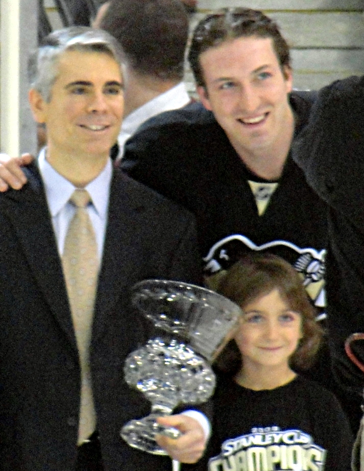 Brooks Orpik is honored as the Pittsburgh Penguins Defensive Player of the Year for 2009-10 during a pregame ceremony before facing the New York Islanders, April 3, 2010 at Mellon Arena in Pittsburgh, PA.